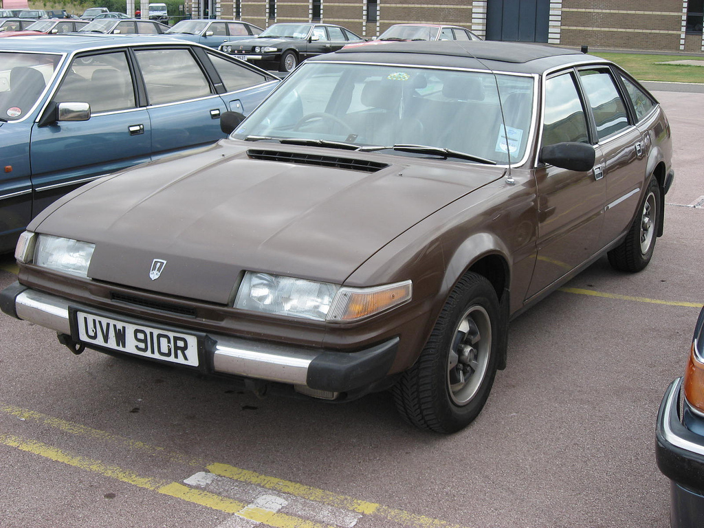 Rover SD1 Club day at the British motoring heritage museum gaydon . 1971 Rover 3500, reg UVW 910R, giant sunroof.